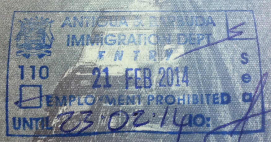 Passport Entry stamp Antigua